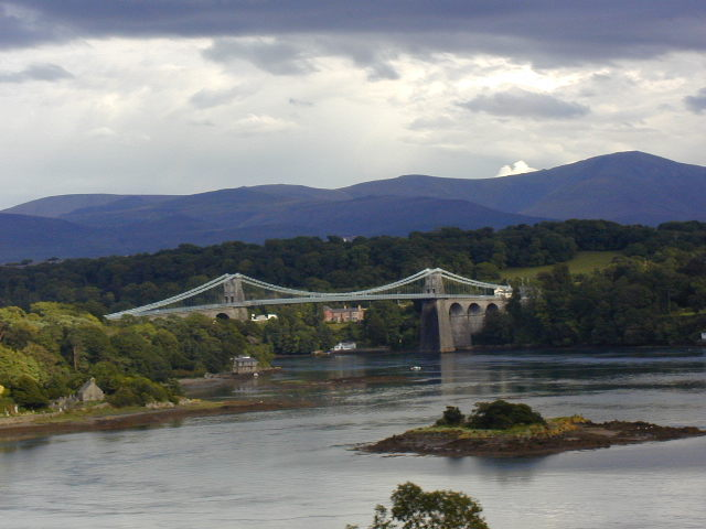 Menai Bridge from Anglesey